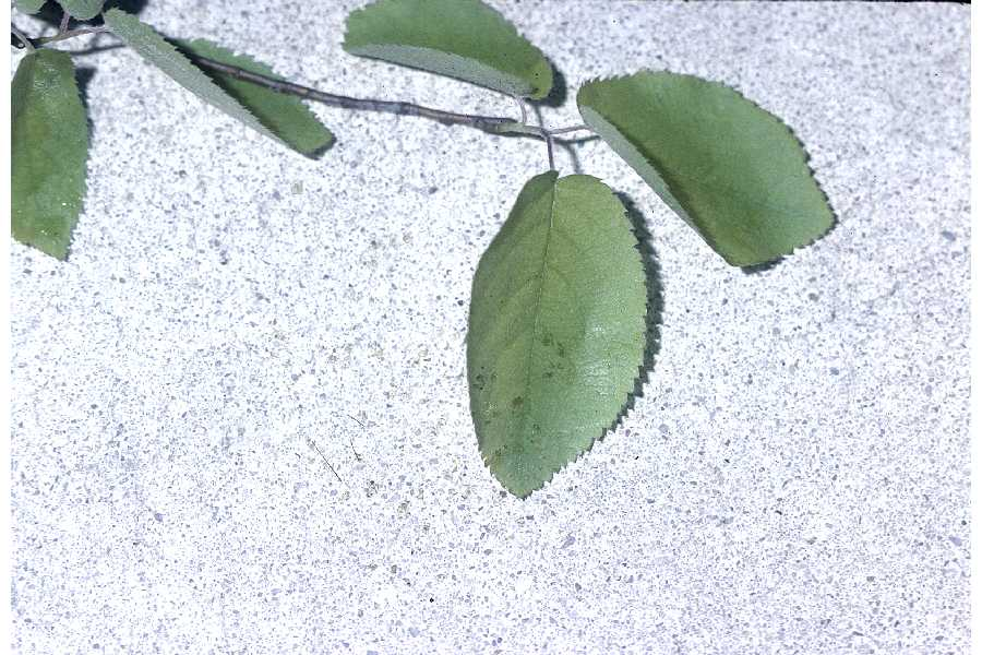 Amelanchier canadensis (L.) Medik. - Canadian serviceberry